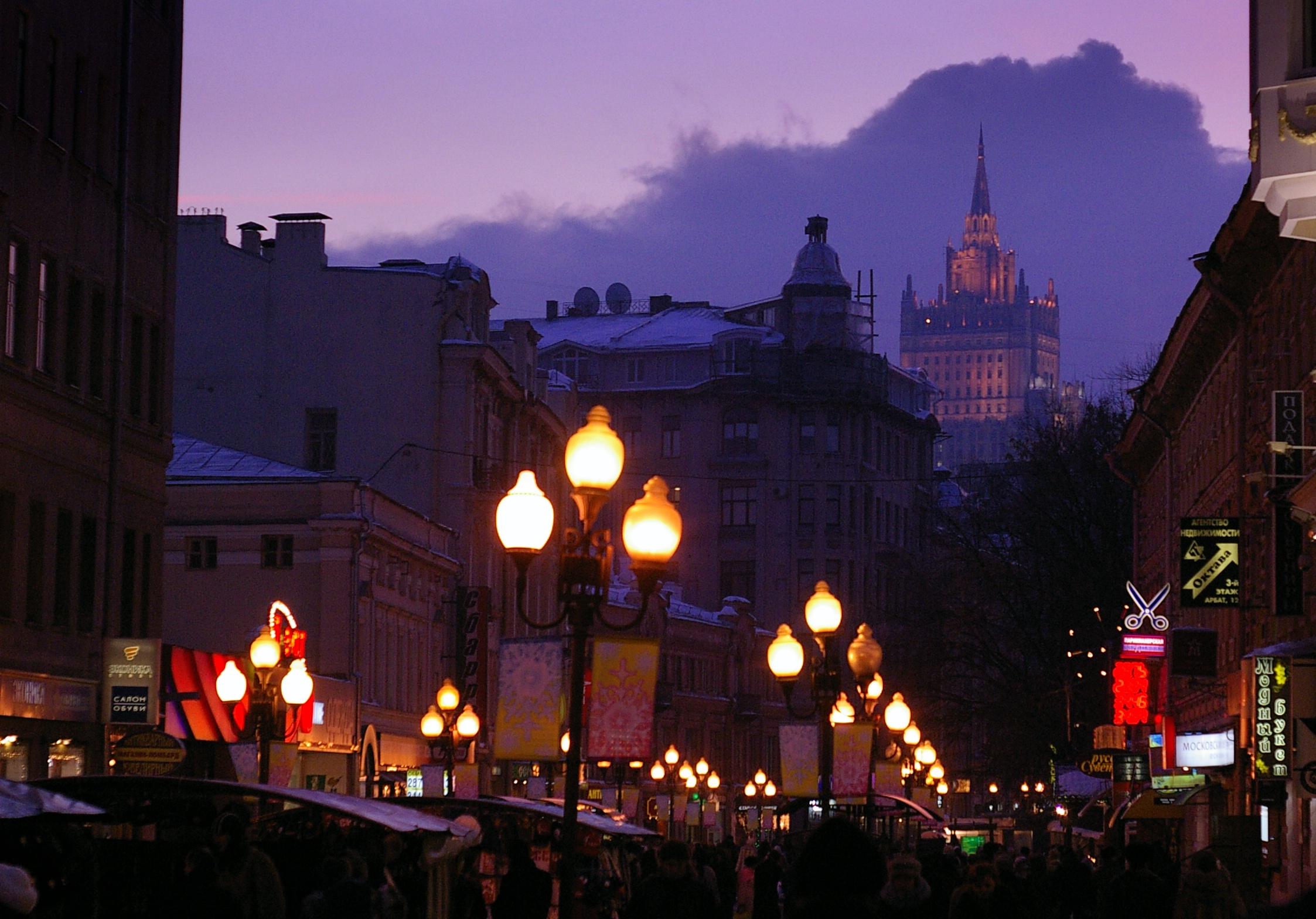 Moscow's Arbat Street in the evening hours